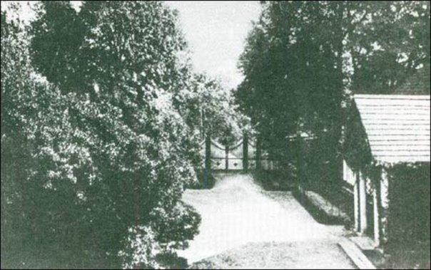 Bohdanow